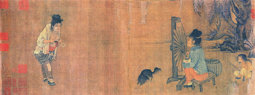 The Spinning Wheel, by Chinese artist Wang Juzheng, from the Northern Song Dynasty (960–1127). Deng Yingke and Wang Pingxing, on page 48 of their Ancient Chinese Inventions (2005, published by 五洲传播出版社, ISBN 7508508378) suggest an alternative title for this painting as The Making of Silk Fabric by Wang Juzheng, Northern Song Dynasty.